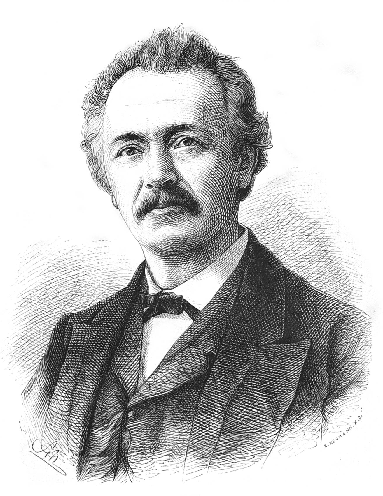 caption: "Heinrich Schliemann.Nach einer Photographie auf Holz gezeichnet von Adolf Neumann."